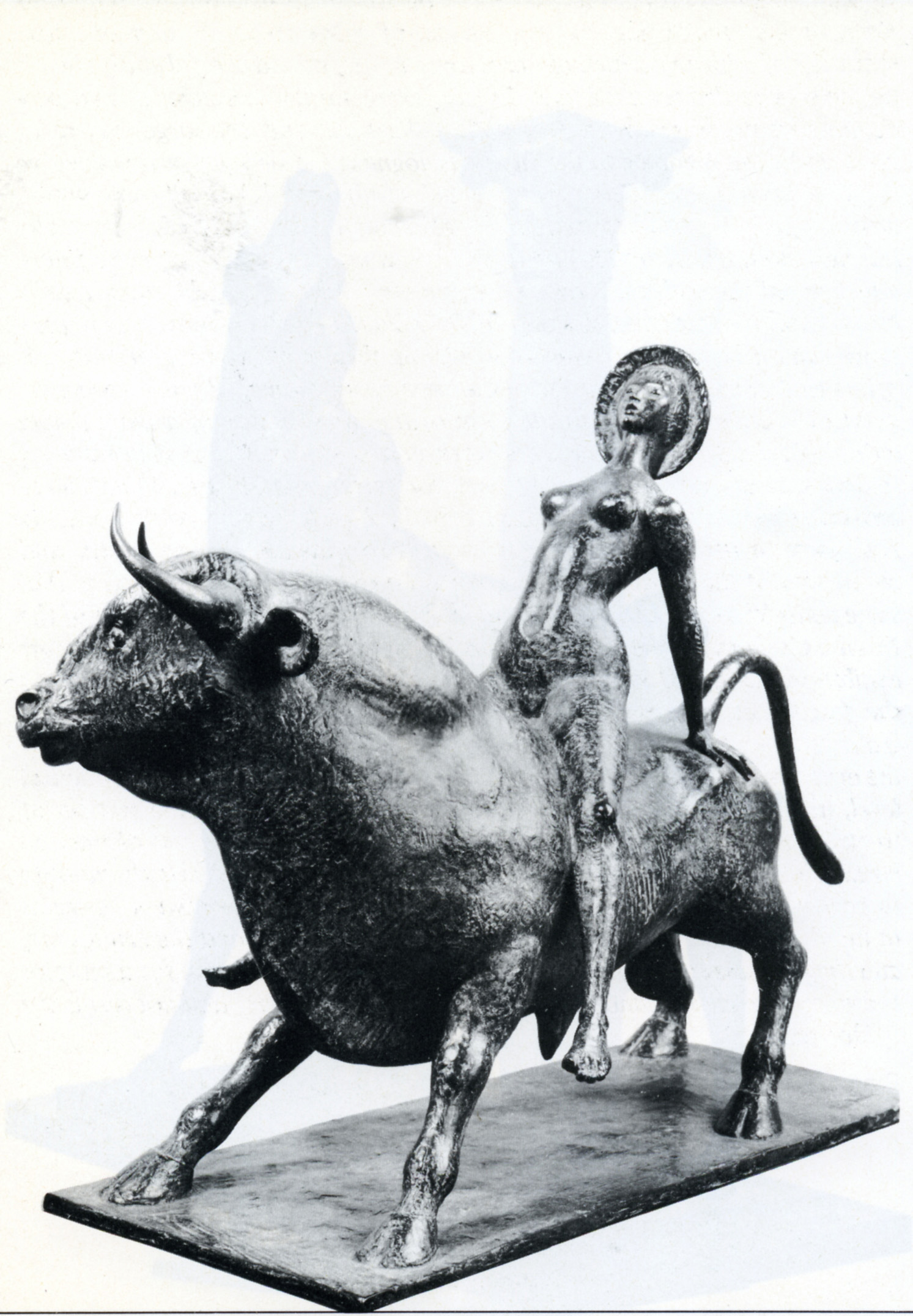 Mito di Pasifae, in bronzo cm 70x60, del 1973